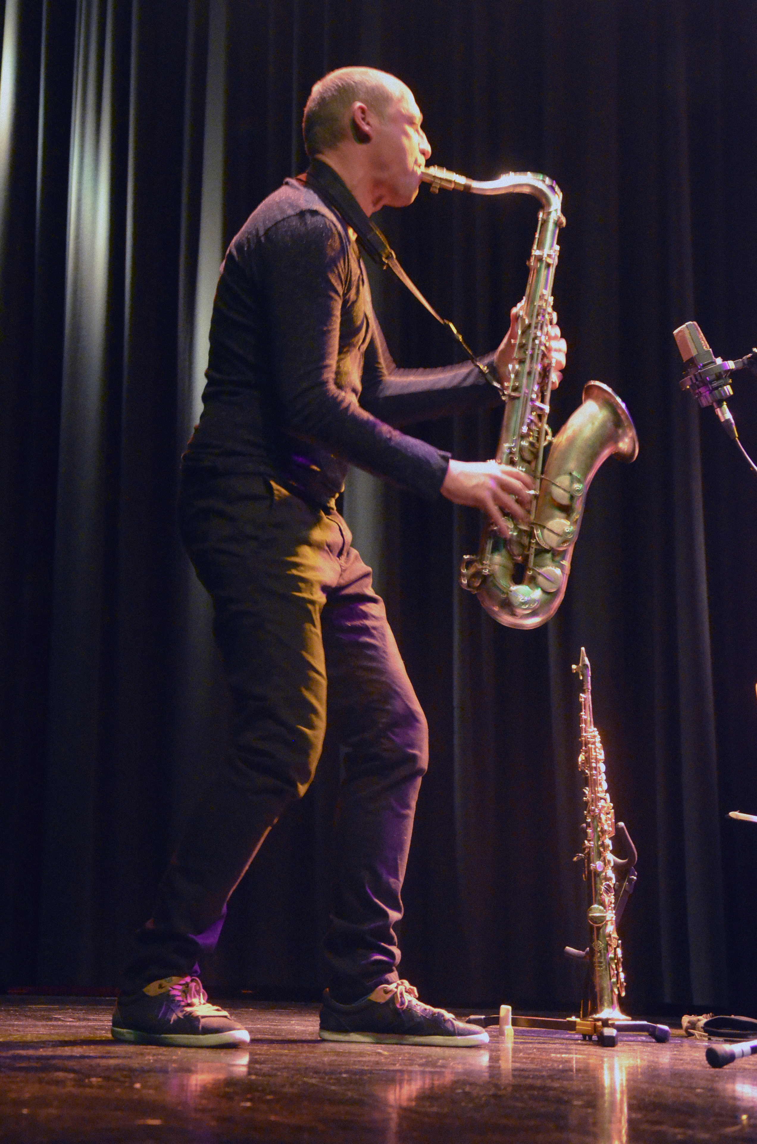 Belgian musician Manuel Hermia in concert.